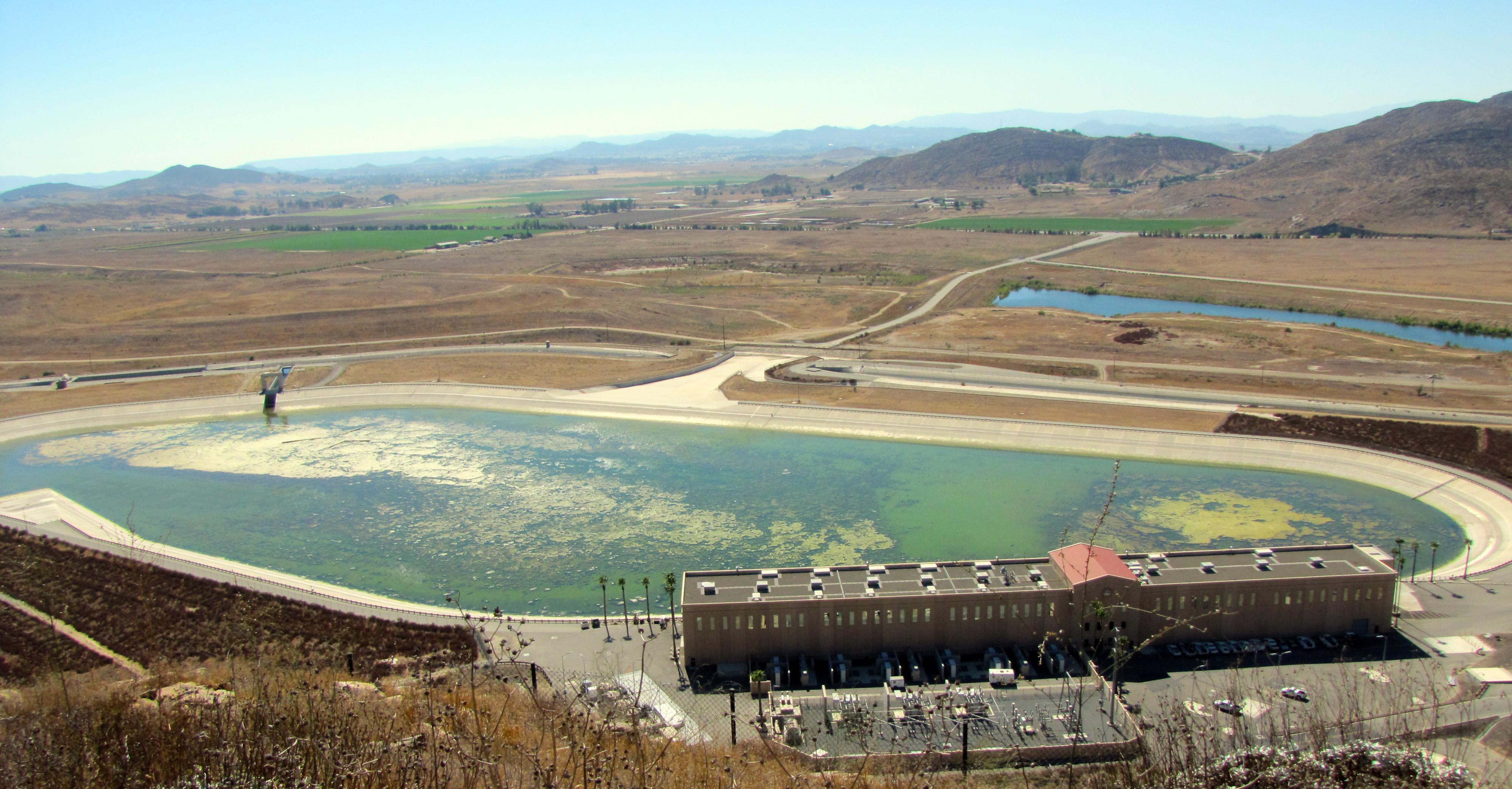 The forebay and pumping station of Diamond Valley Lake — an off-stream reservoir. Located southwest of Hemet in Riverside County, California.